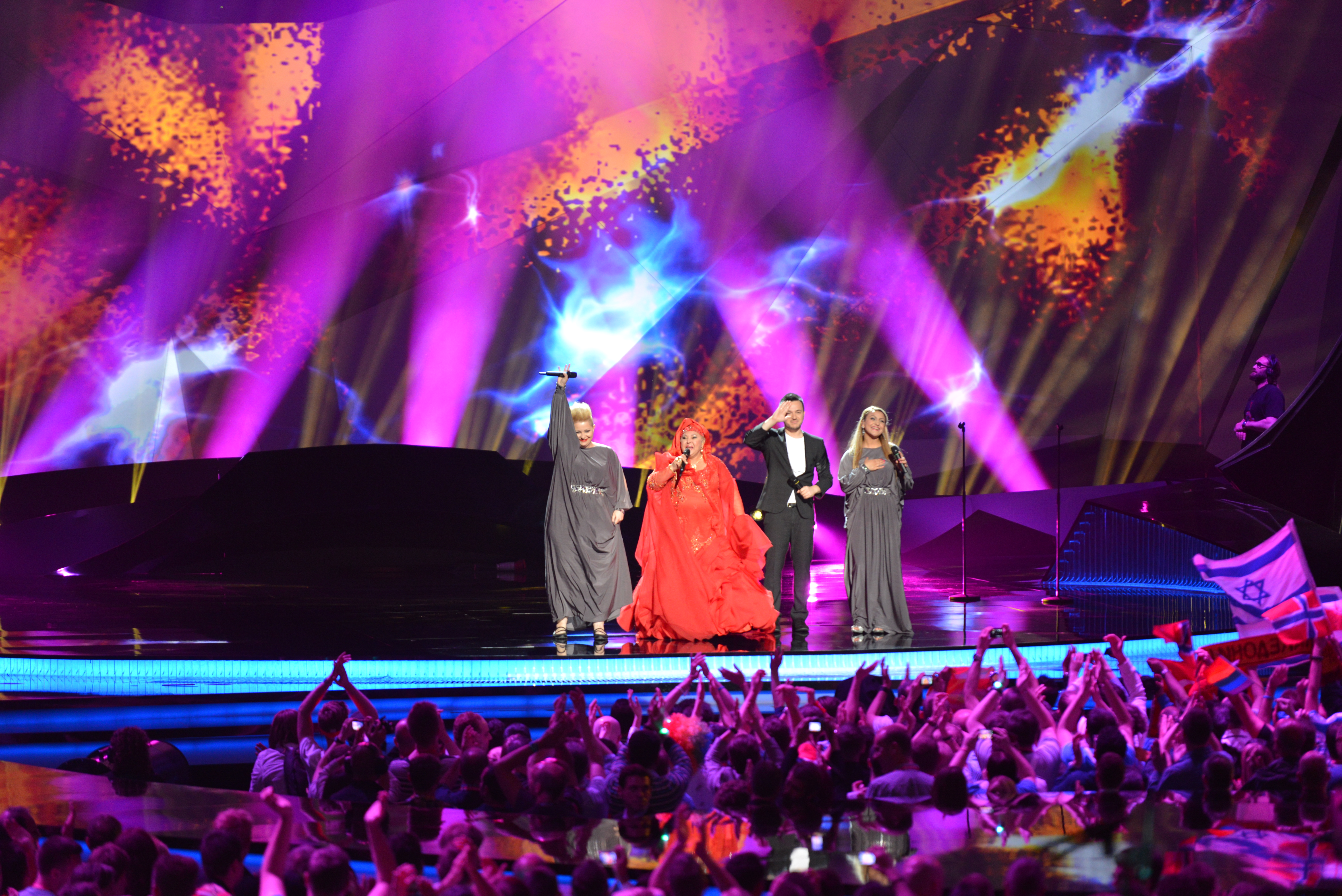 Esma and Lozano representing North Macedonia with the song "Pred da se razdeni" (Пред да се раздени) during the second dress rehearsal of the second semi final of the Eurovision Song Contest 2013 in Malmö. (Help translate this text)